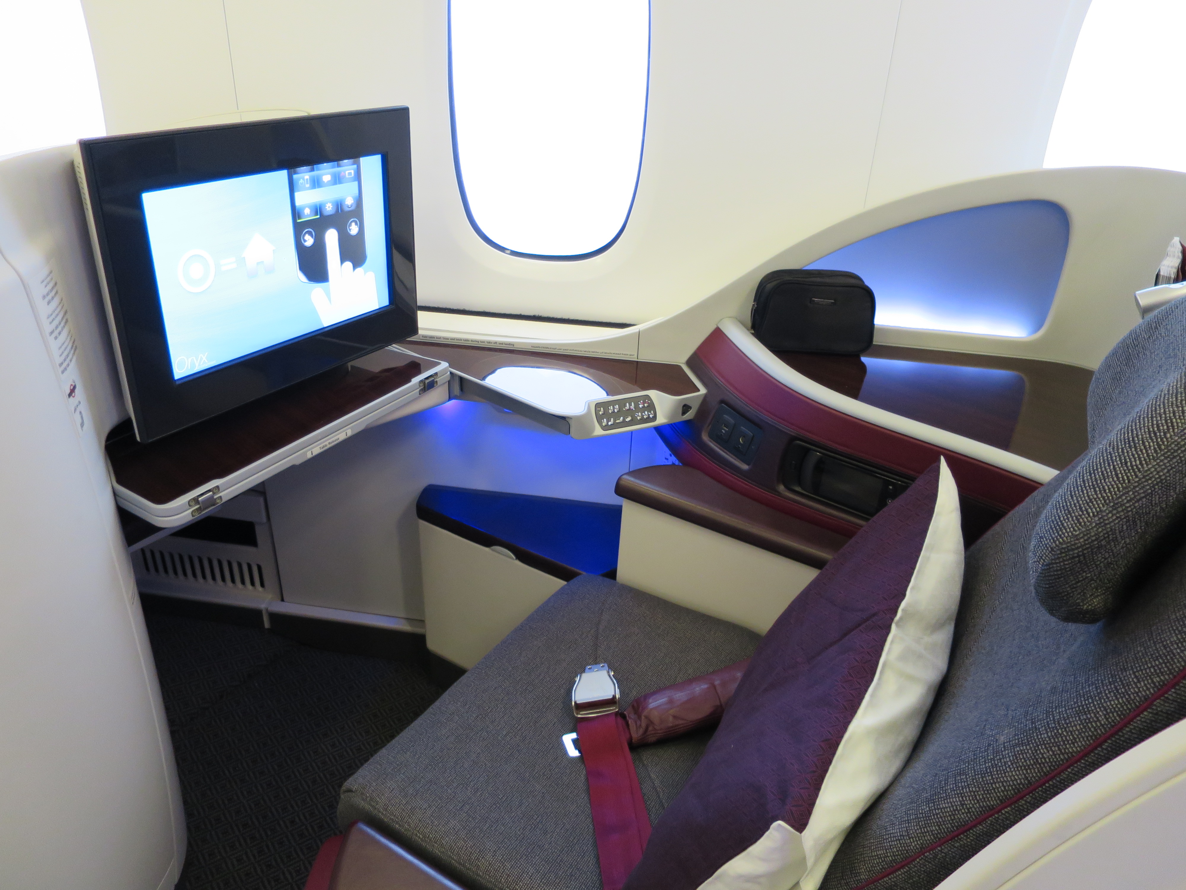 ITB Berlin 2016 The making of this document was supported by Wikimedia Polska Association, within Wikigrant no. WG 2016-9.